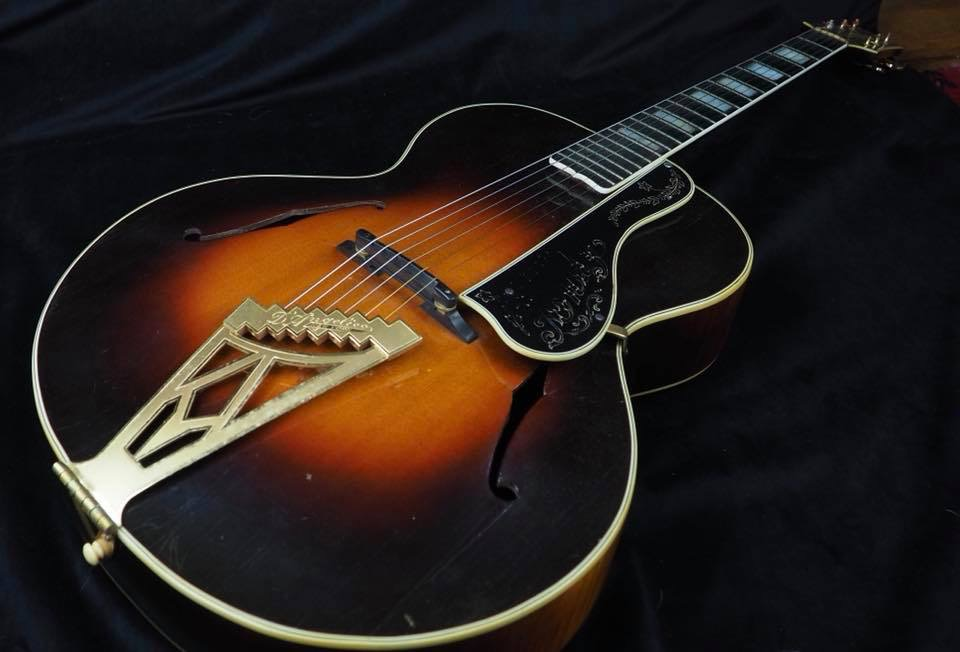 1933 D'Angelico archtop guitar, serial number #1034, originally owned by Andy Jackson who at the time played with Blanche Calloway and Her Joy Boys and went on to play with the Edgar Hayes Orchestra.